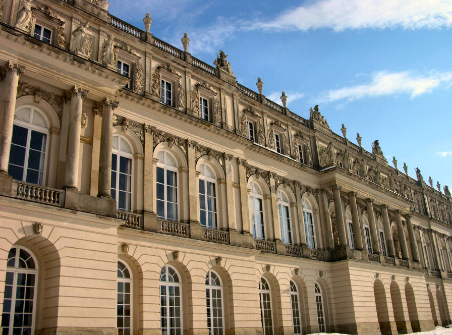 Herrenchiemsee Castle in Bayern, Germany Caption read: Florian Scheck for Wikimedia Commons 2006-01-28